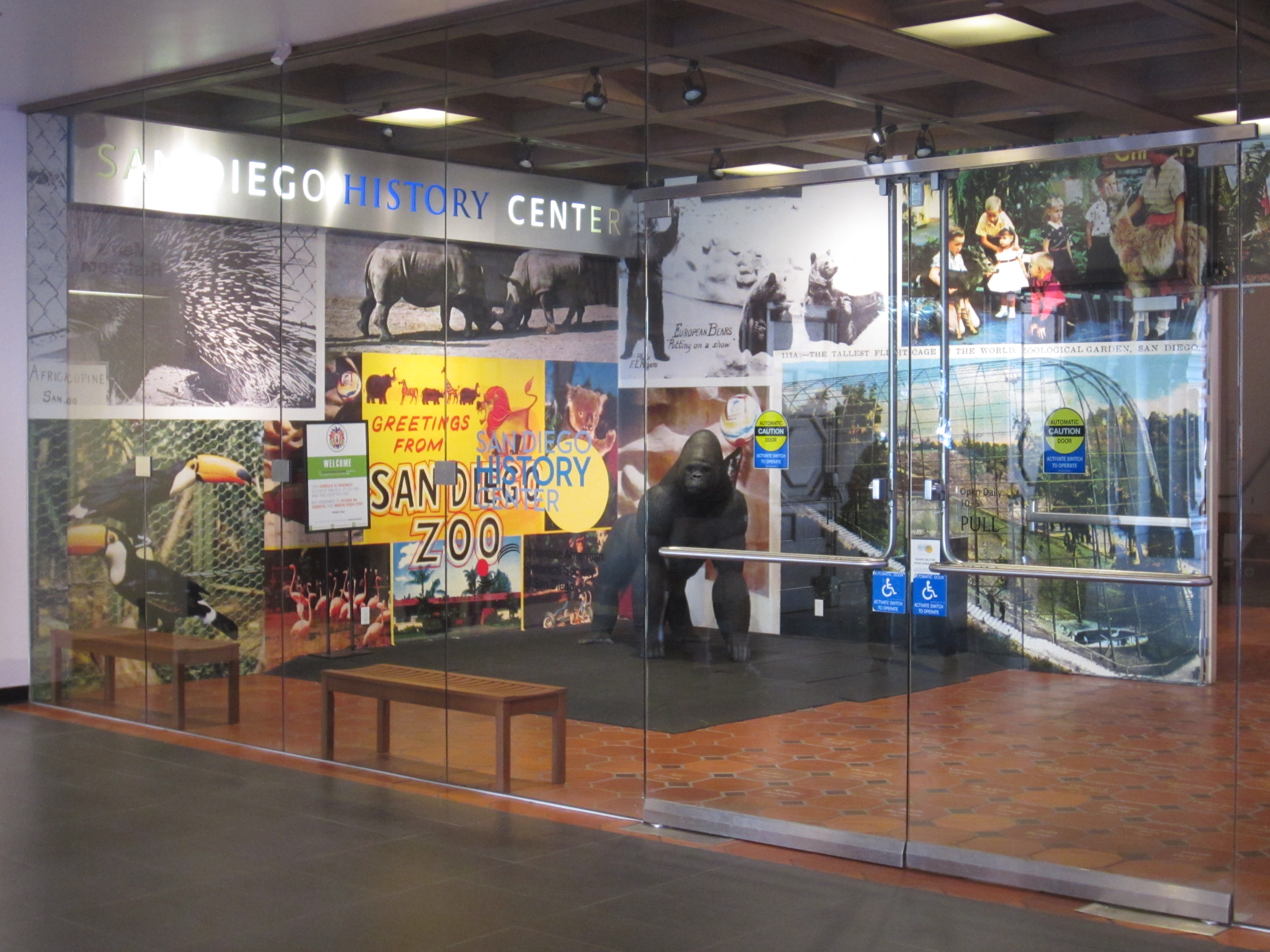 San Diego, California (2016)